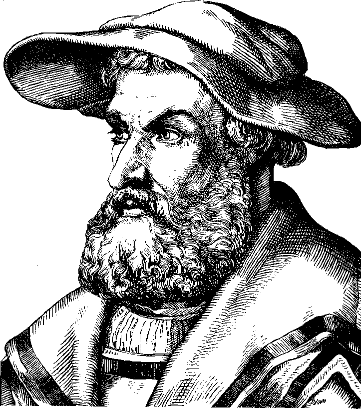 Helius Eobanus Hessus (Eoban Koch)